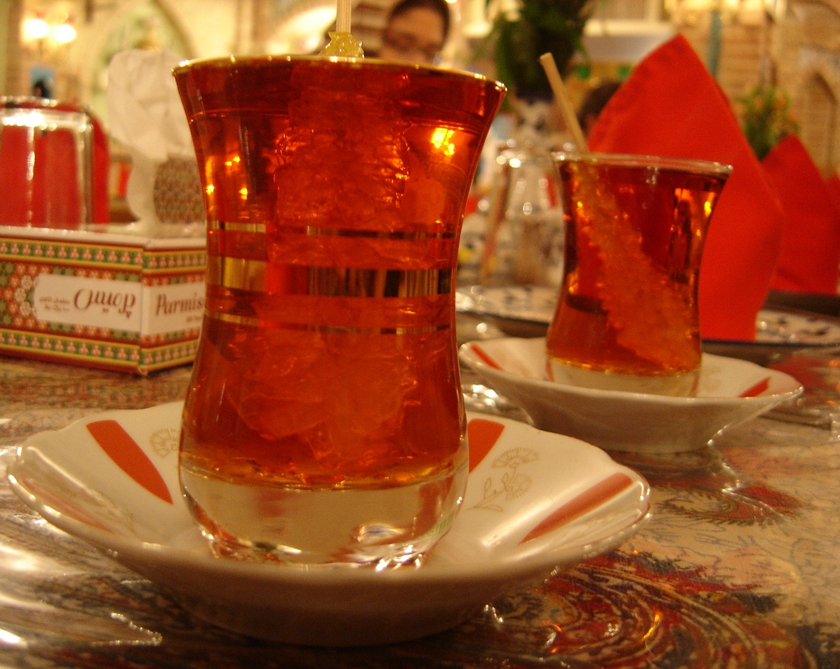 A fenjaan (cup) of chaai (tea), served according to Iranian taste specifications. Tehran, Iran.